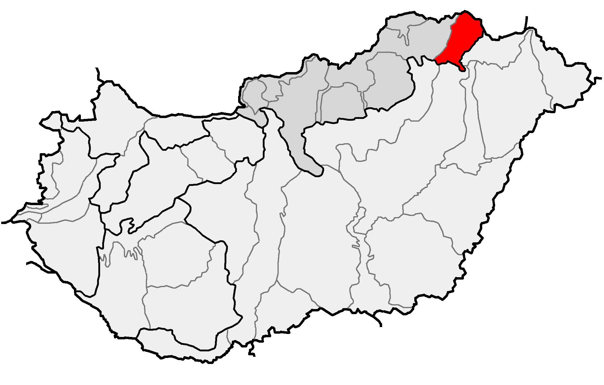 Location of geographical mesoregion of Tokaj–Zempléni-hegyvidék (red) and macroregion of Északi-középhegység (gray) within subdivisions of Hungary.